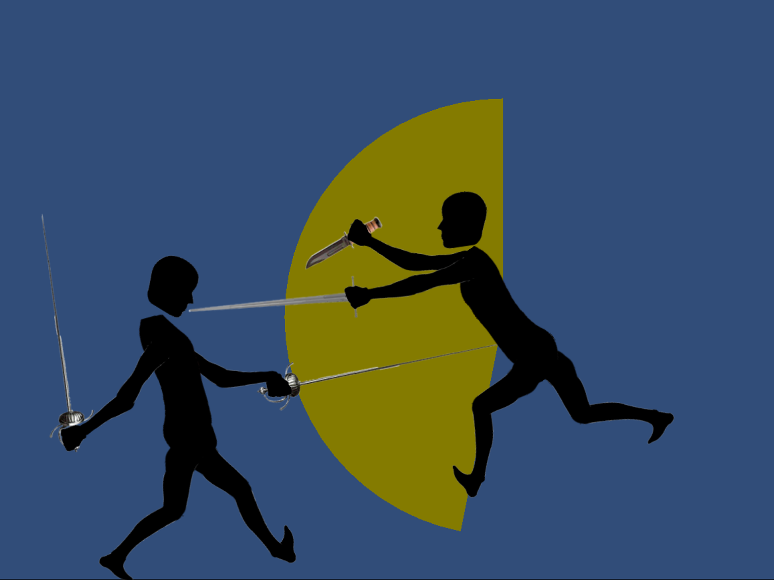 Rivalry gameplay.